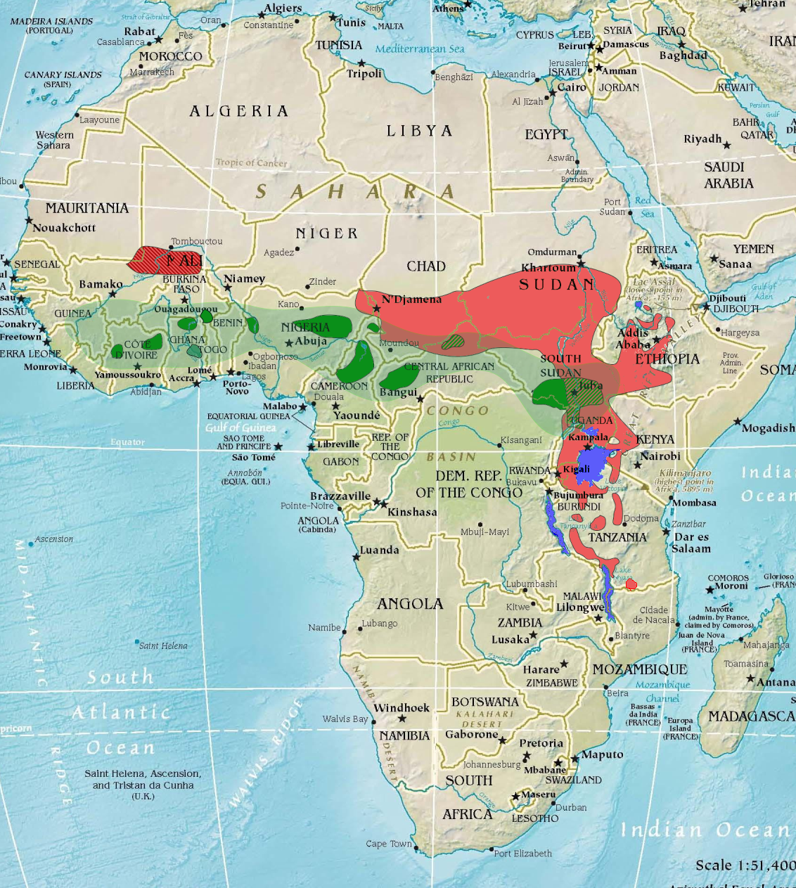 Distribution Map of Lanius excubitorius (pink and dark pink with stripes) and Lanius gubernatur (green and green with pink stripes): Light green: Possible but unconfirmed occurrences of Lanius gubernator.